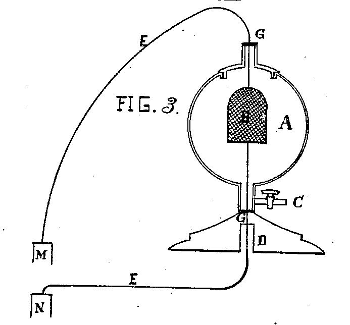 Figure 3 from US patent 181,613, "Improvement in Electric Lights", by Henry Woodward